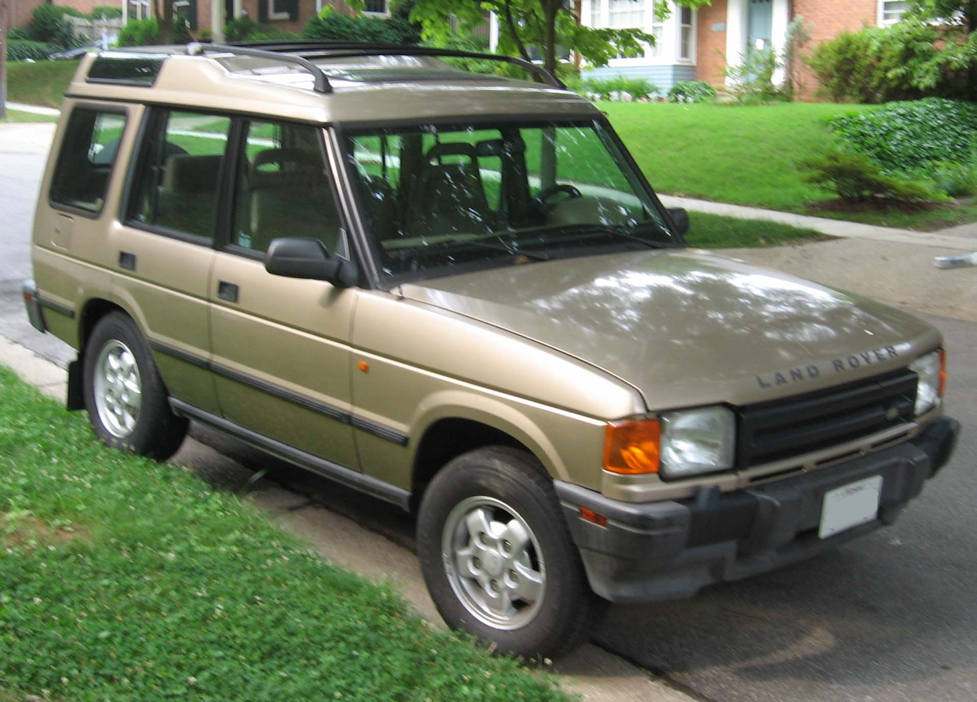 Land Rover Discovery photographed in USA.